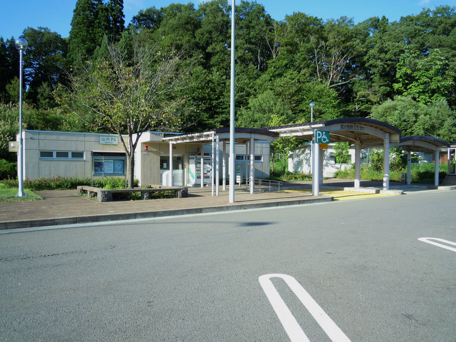 This rest area, Sannai Parking Area（for Kitakami）, is on Akita Expressway, in Yokote City, Akita Prefecture, Japan.